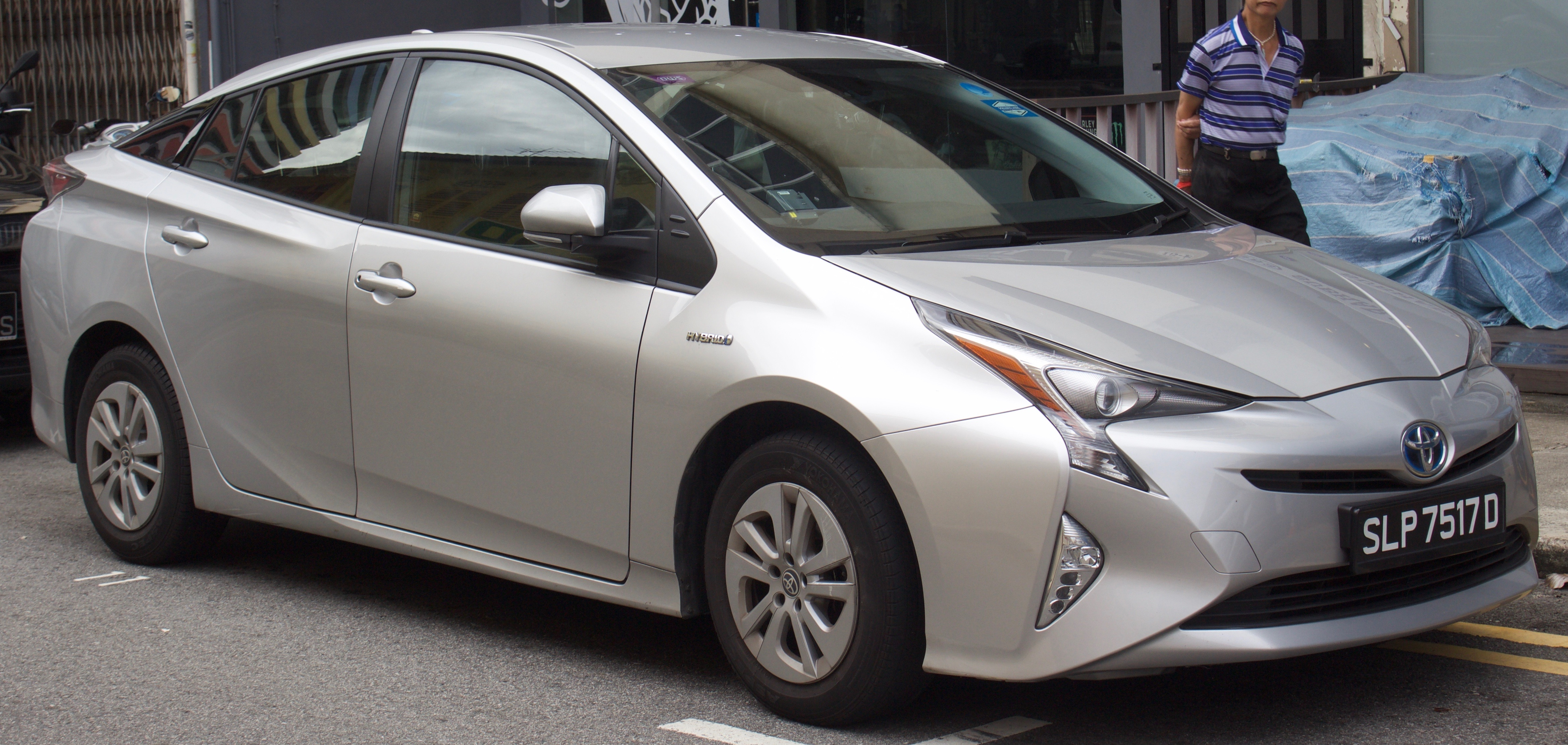 2017 Toyota Prius (ZVW50R) 1.8S sedan. Photographed in Singapore.